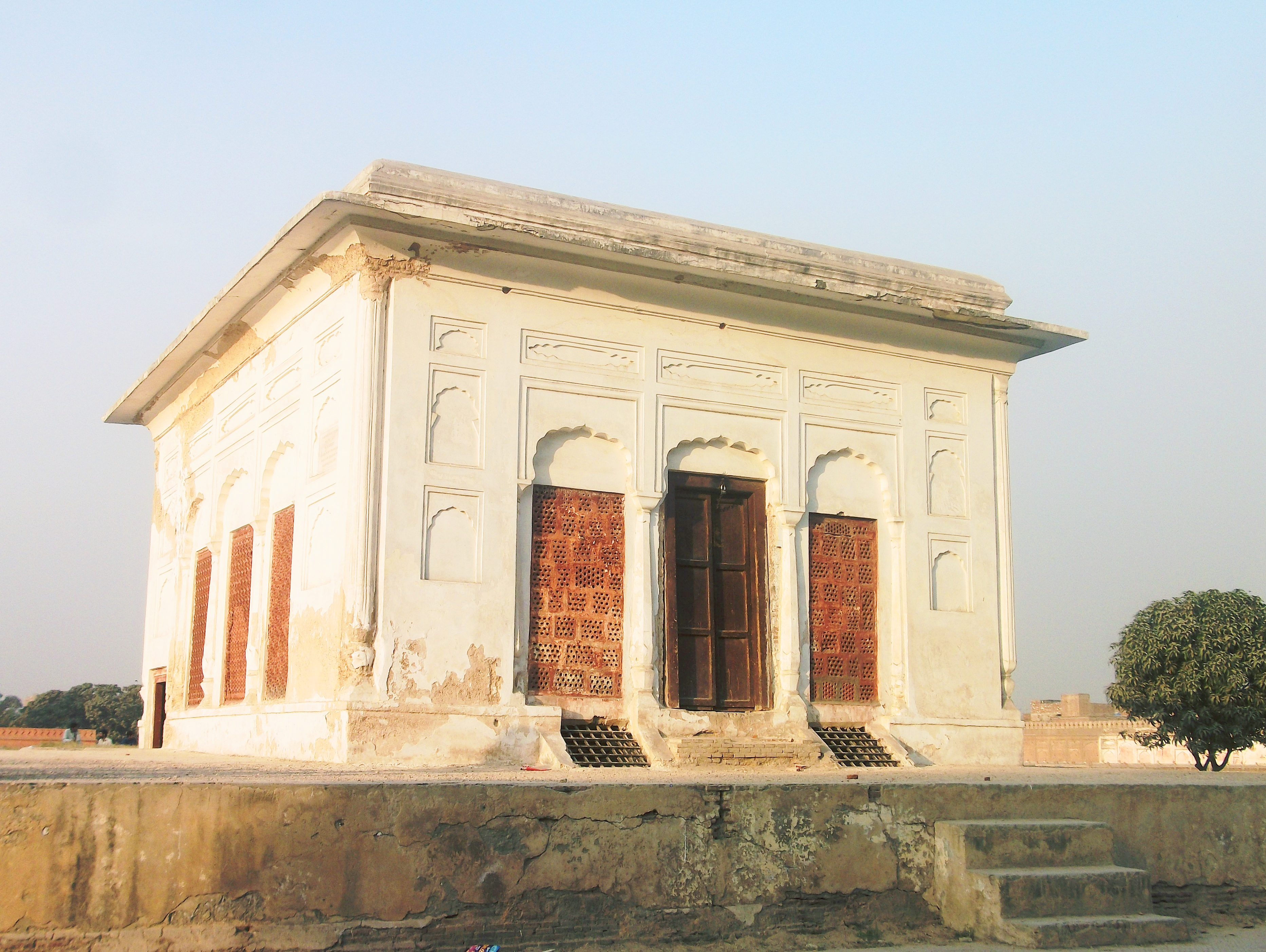 Moorcroft Pavilion in Shalimar Gardens, Lahore